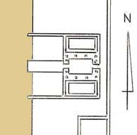 Pyramid Temple of the Red Pyramid